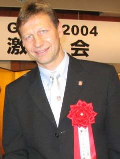 Football manager Guido Buchwald (mislabeled as Holger Osieck at source) This file has been extracted from another file: Guido Buchwald full.jpg with Holger Osieck